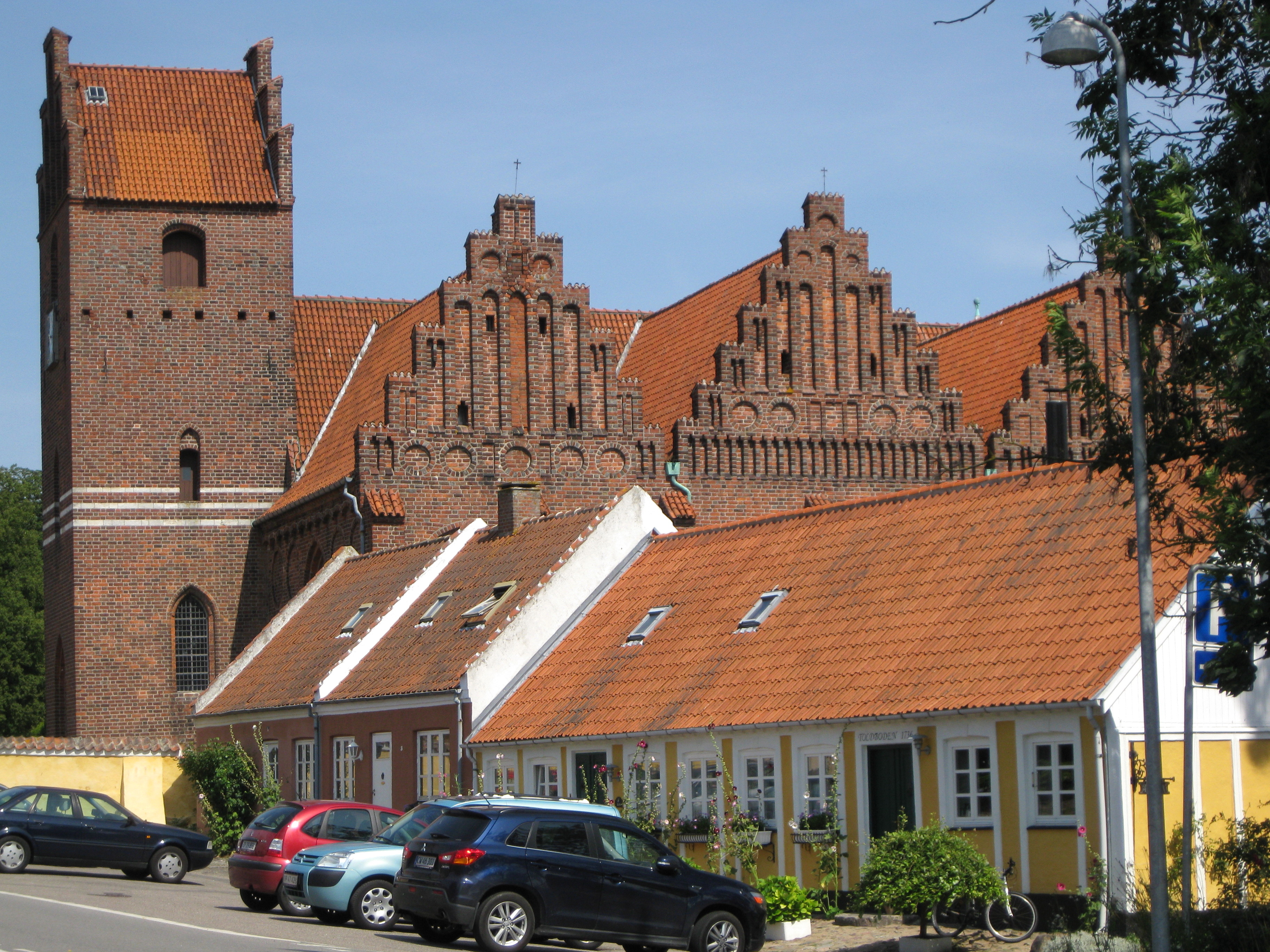 The church "Præstø Kirke" in the small town "Præstø". The town is located on South Zealand in east Denmark.